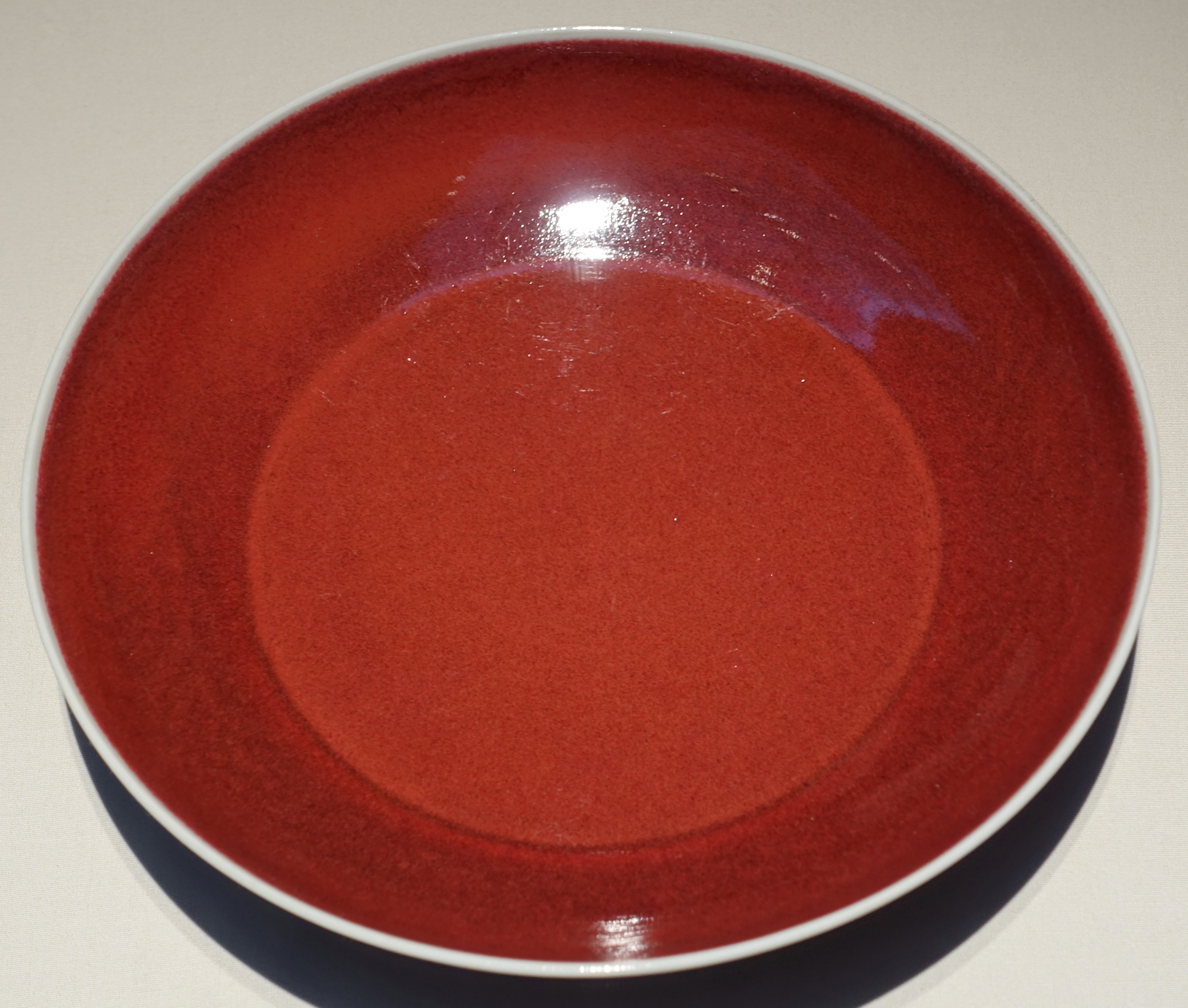 Exhibit in the Freer Gallery of Art, Washington, D.C., USA.